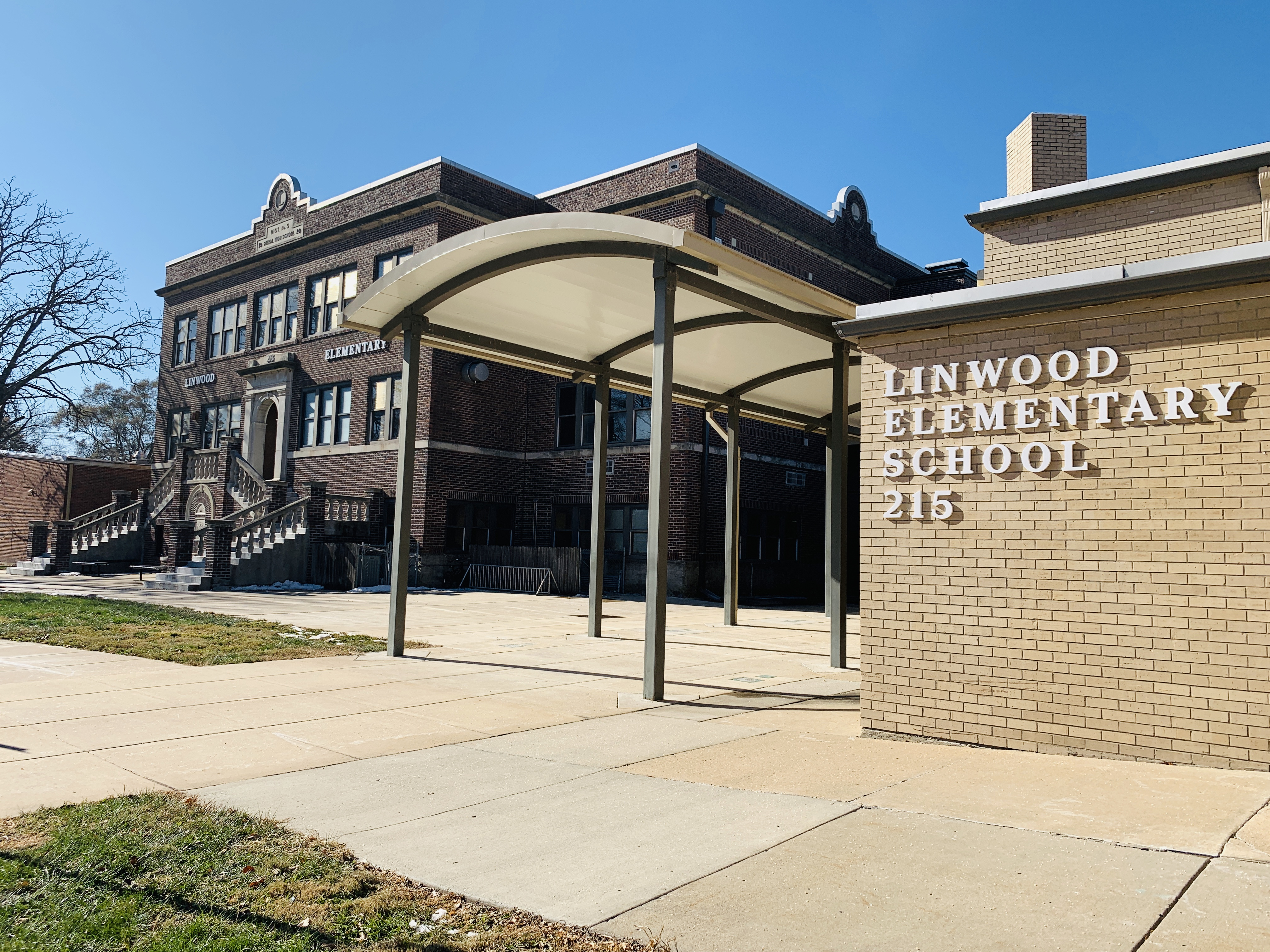 Linwood Elementary (Basehor-Linwood USD 458) Kansas City (Kansas)